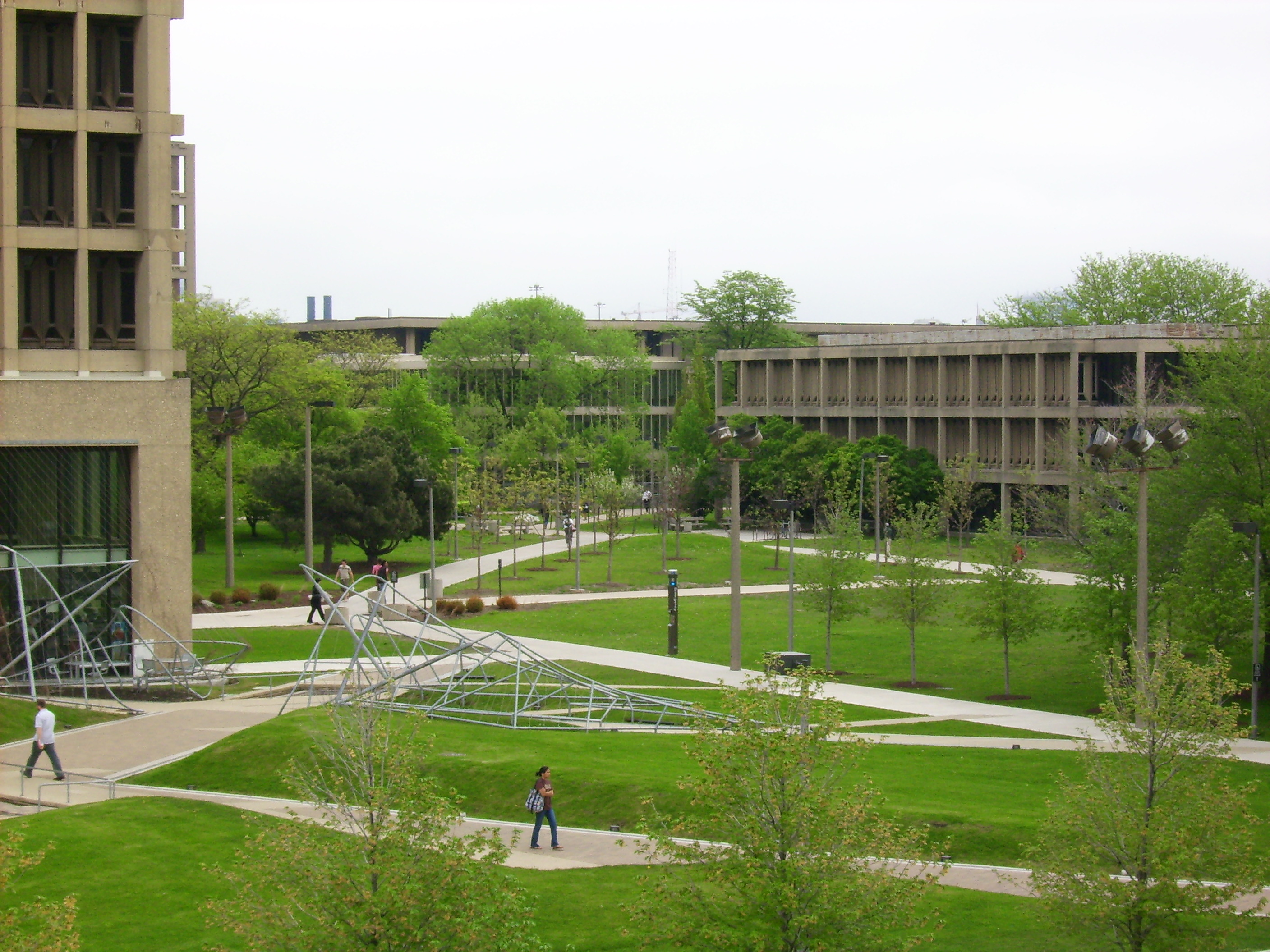 University of Illinois at Chicago (UIC) East Campus in the spring. Picture taken from top of Behavioral Sciences Building